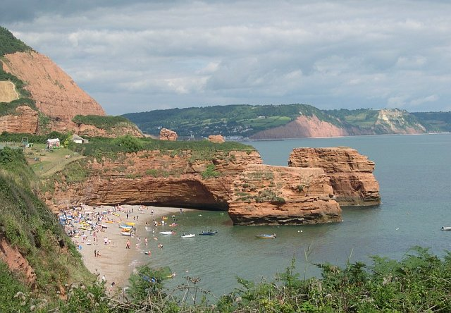 Ladram Bay, west of Sidmouth. This very sheltered little cove beneath the red sandstone cliffs and High Peak Hill is most obviously a popular summer bathing spot. In the distance, beyond Sidmouth can be seen the red cliff face of Salcombe Hill and beyond that, Dunscombe Cliff.